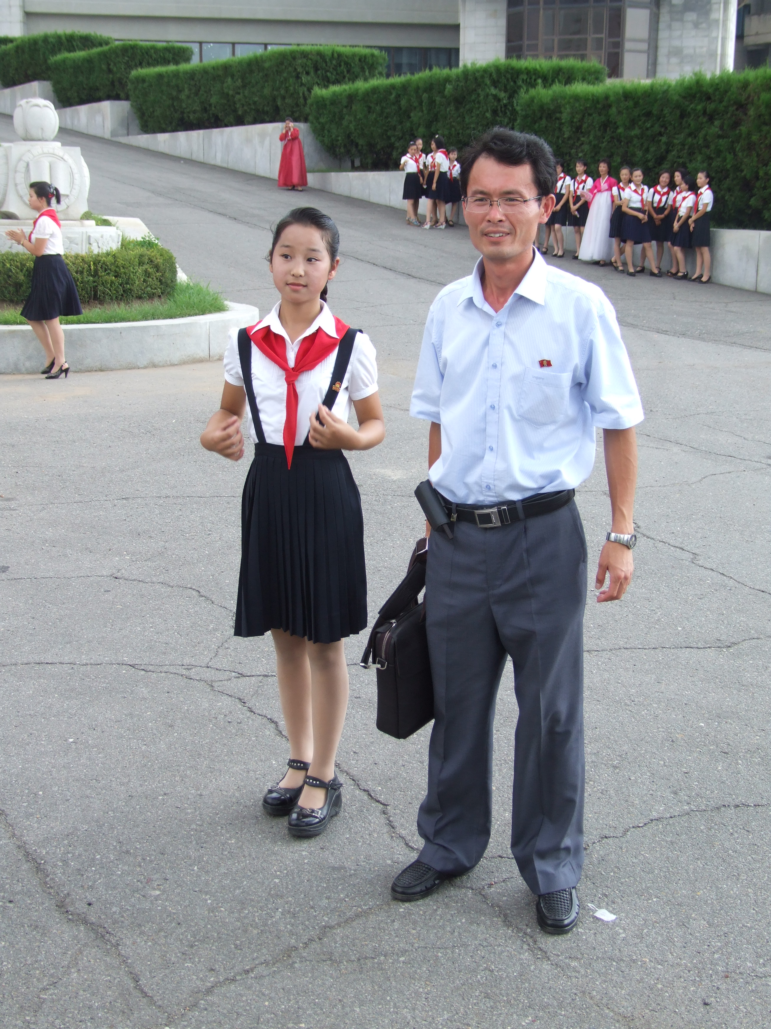 Mangyongdae Children's Palace